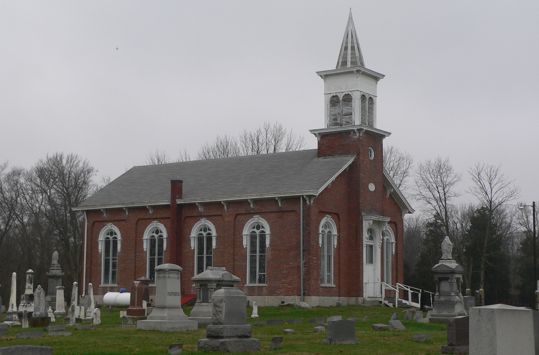 Holy Ground, a.k.a. Doddridge Chapel, located at 9471 Chapel Road in rural Wayne County, Indiana, southwest of Centerville, Indiana. View is from the southeast.